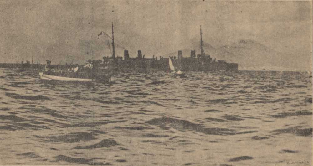 The French ship that saved thousands of Armenians after the Musa Dagh Resistance, 1915 Armenian Genocide